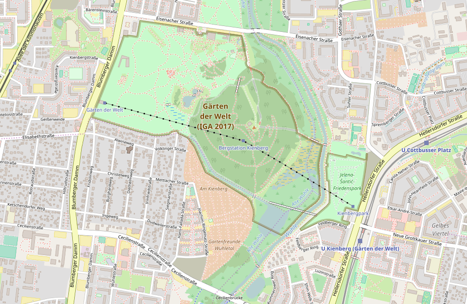 This map may be incomplete, and may contain errors. Don't rely solely on it for navigation.